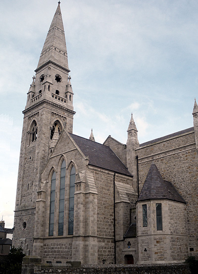 Photo of the Mariners' Church, Dun Laoghaire, taken by me.